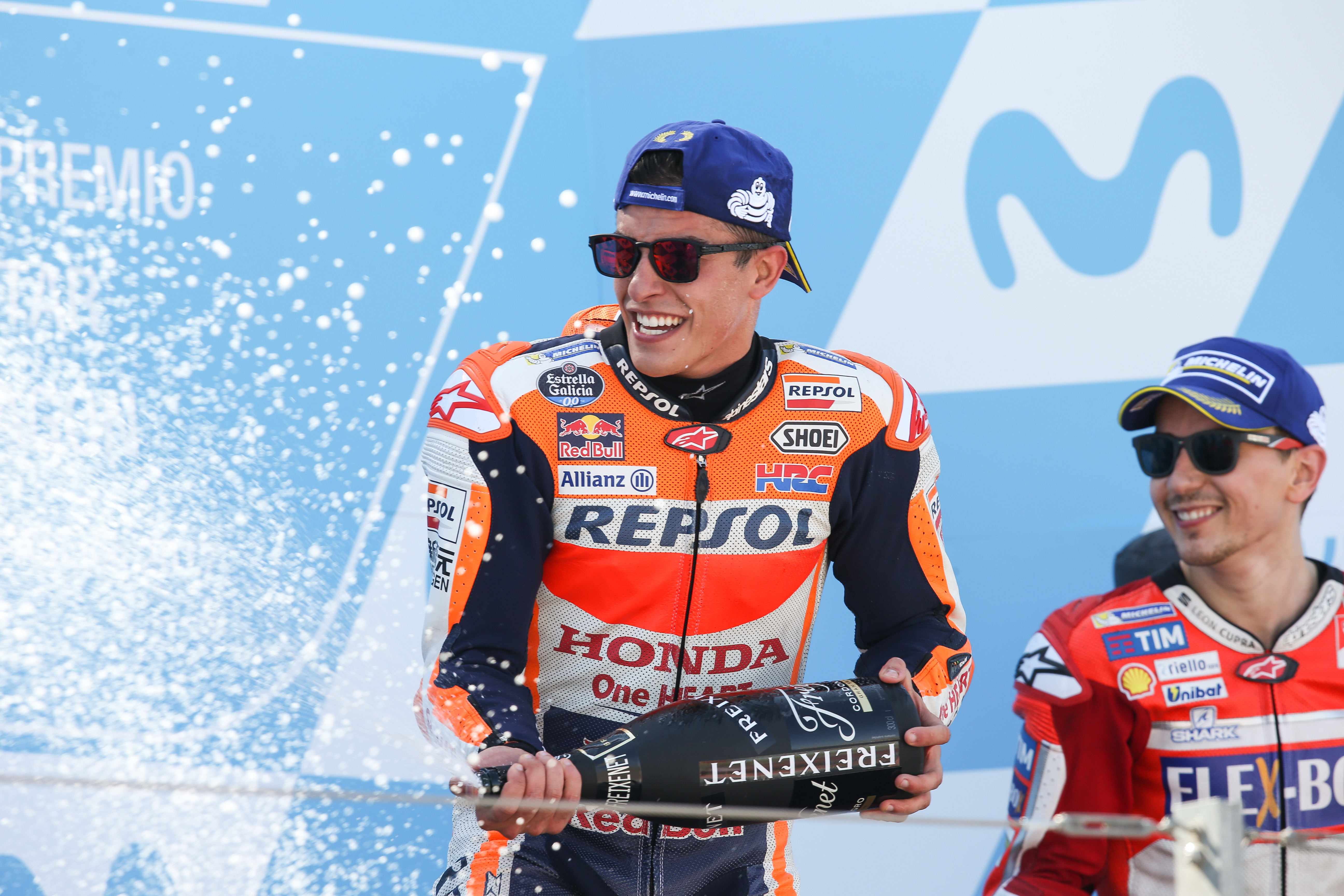 Marc Márquez and Jorge Lorenzo, spraying the champagne and celebrating after finishing in first and third place at the 2017 Aragón Grand Prix.